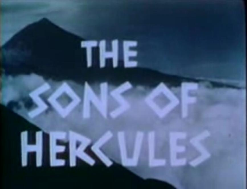 Opening shot from the movie "The Sons of Hercules" (1963) (Ercole l'invincibile )